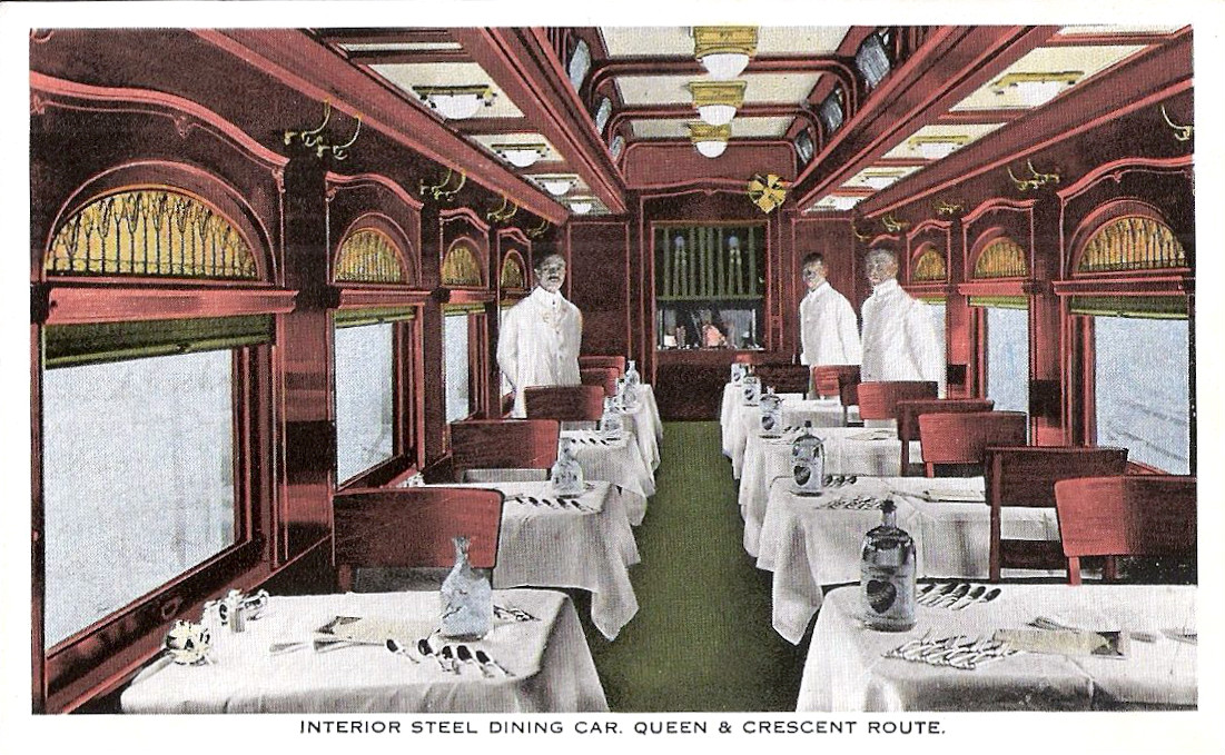 Postcard depiction of a dining car on the Queen & Crescent Railroad Route.